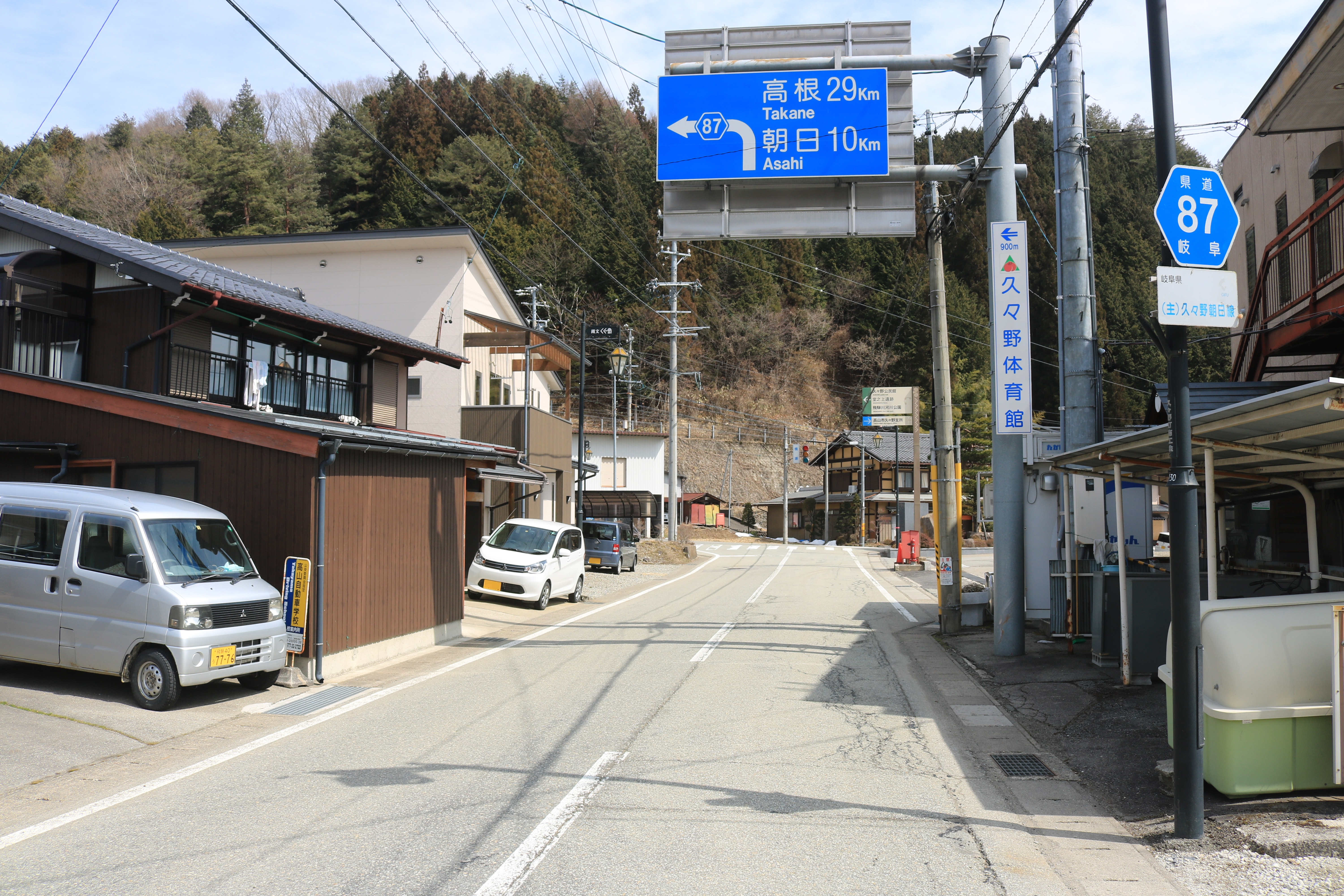 Gifu Prefectural Road Route87 in Musugo, Kugunocho, Takayama, Gifu Prefecture, Japan.